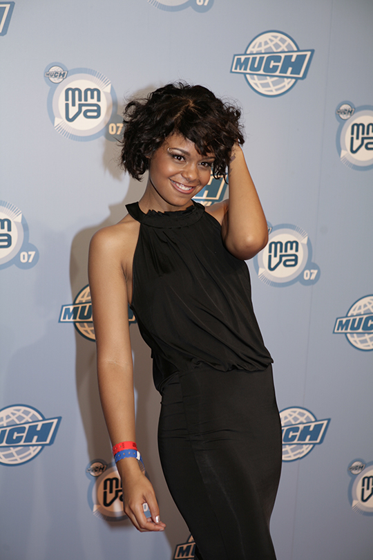 Fefe Dobson was an attendee at the 2007 MuchMusic Video Awards, held the night of Sunday, June 17, 2007 in Toronto, Ontario, Canada.